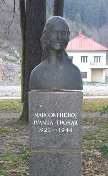 Bust of People's hero of Yugoslavia, Ivanka Trohar, Park of the People's heroes in Delnice.